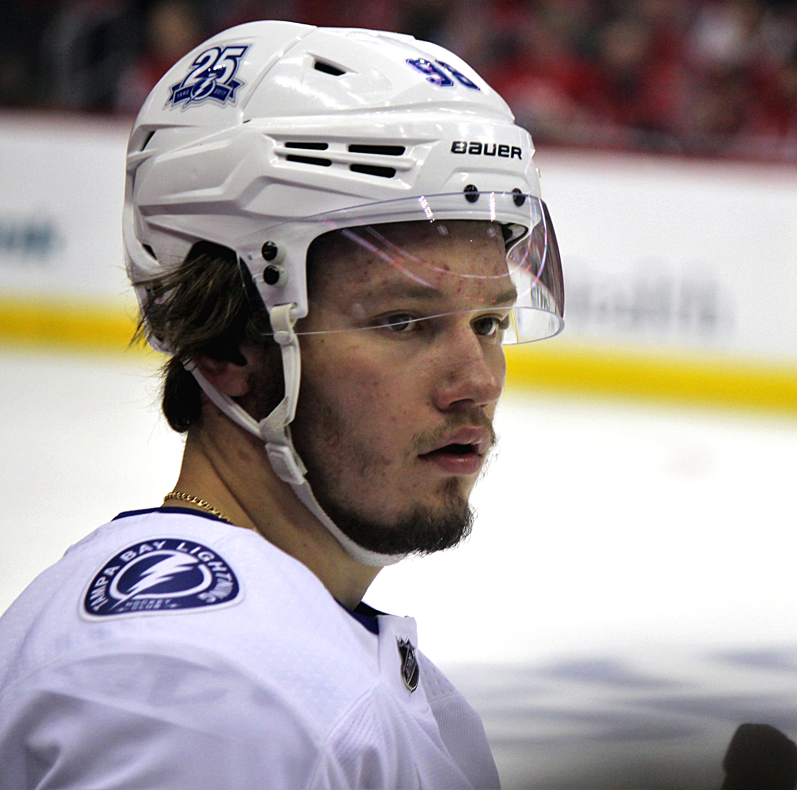 Tampa Bay Lightning defenseman Mikhail Sergachev during game 5 of the 2017 Eastern Conference Finals against the Washington Capitals, May 21, 2018, at Capital One Arena in Washington, D.C.